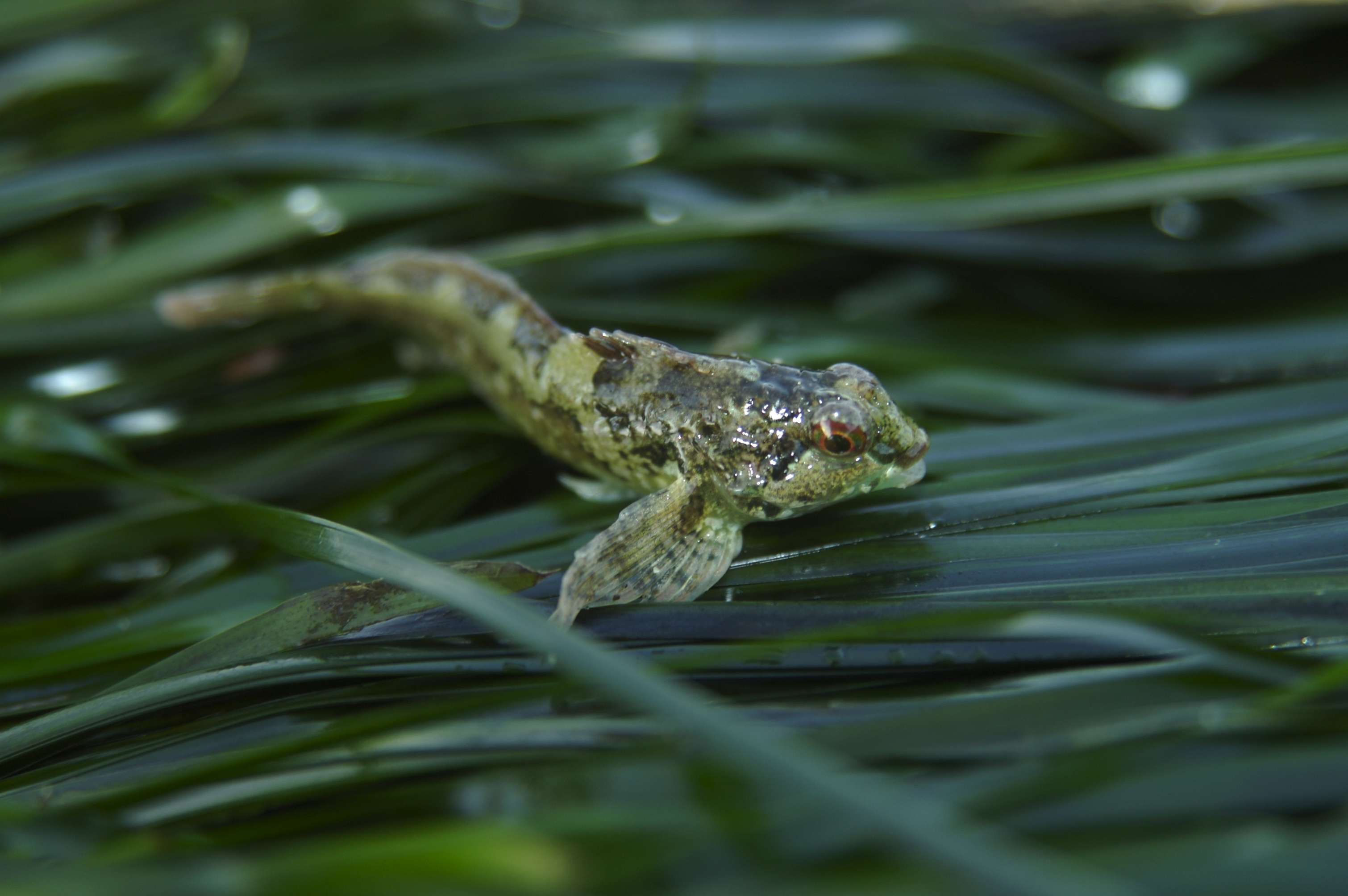 Oligocottus maculosus on Hazard Reef near Morro Bay, California, USA